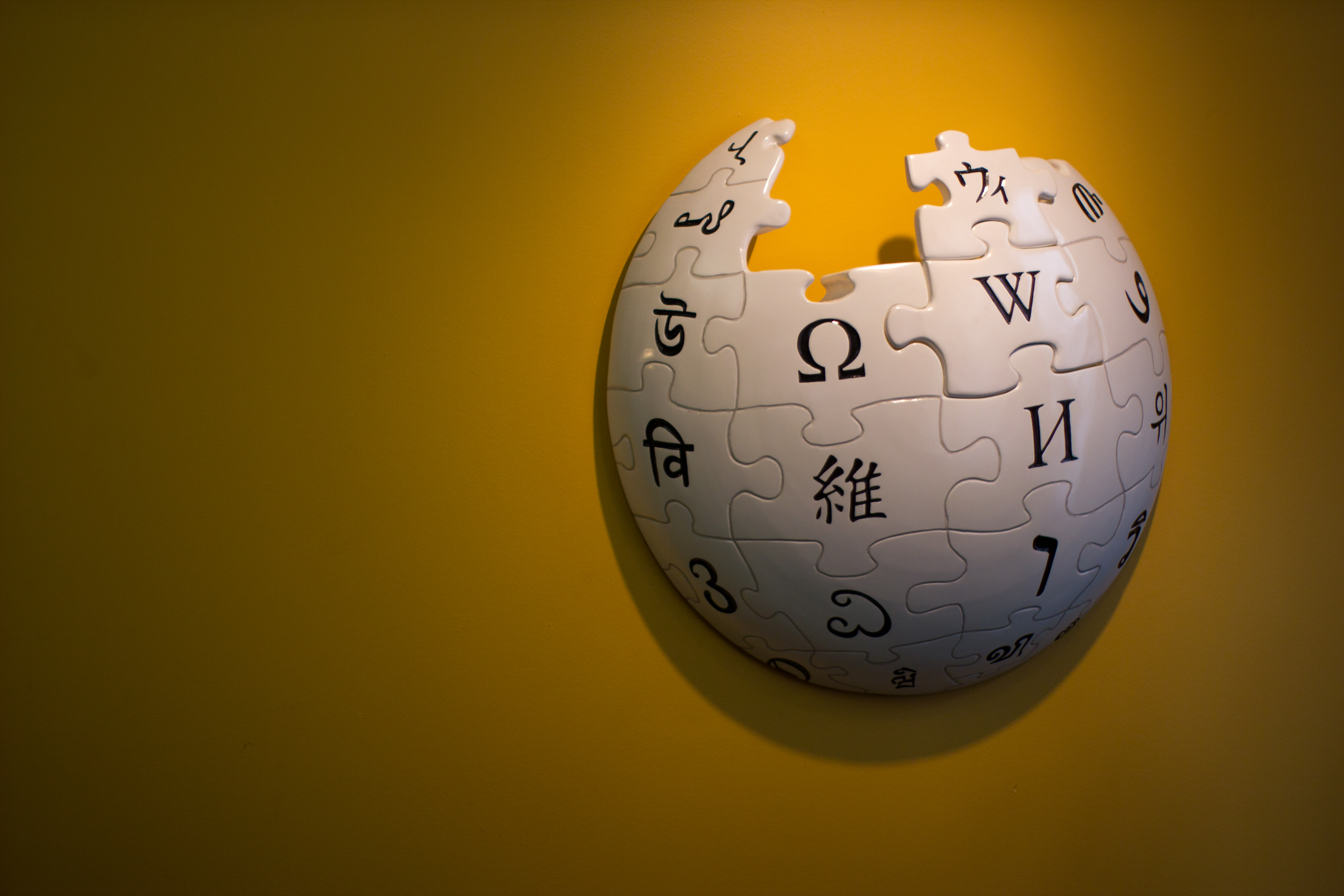 THe Puzzle Globe wikipedia logo at the Wikimedia Foundations headquarters in San Francisco